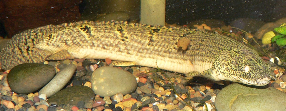 Photo of Polypterus weeksii (mottled bichir) at the Steinhart Aquarium in San Francisco